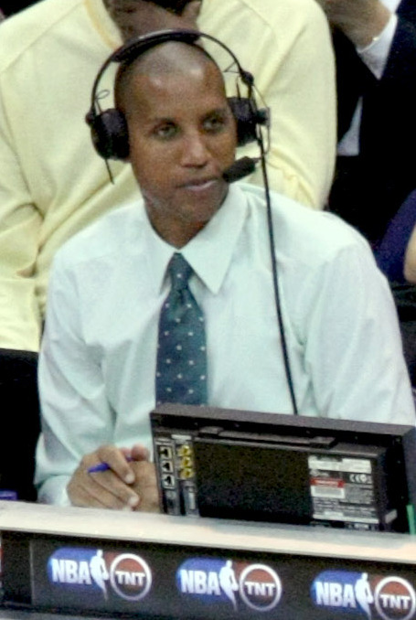 Reggie Miller serves as an NBA analyst for TNT